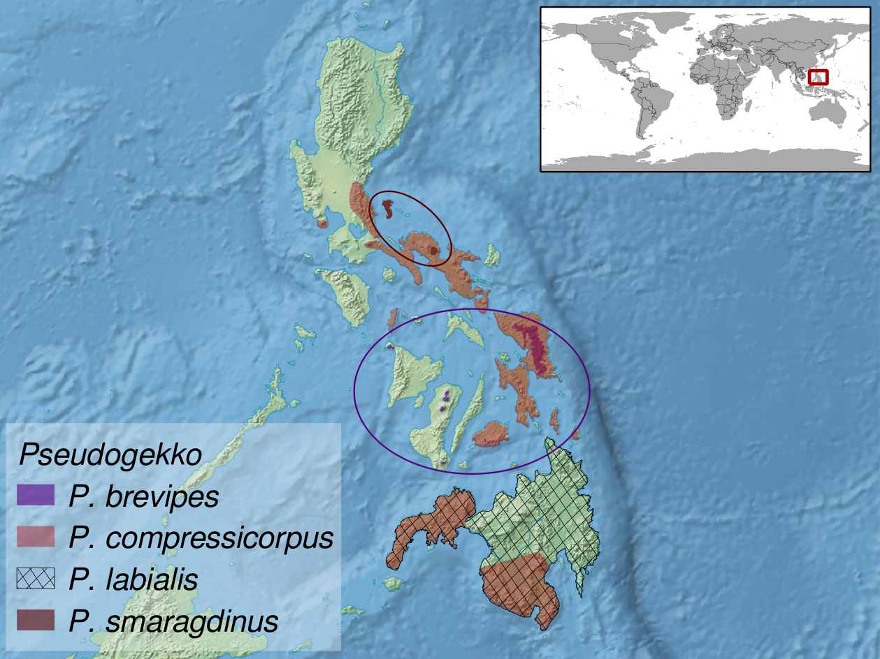 geographic distribution of the genus Pseudogekko Included species for RDB: P. brevipes, P. compressicorpus, P. labialis and P. smaragdinus